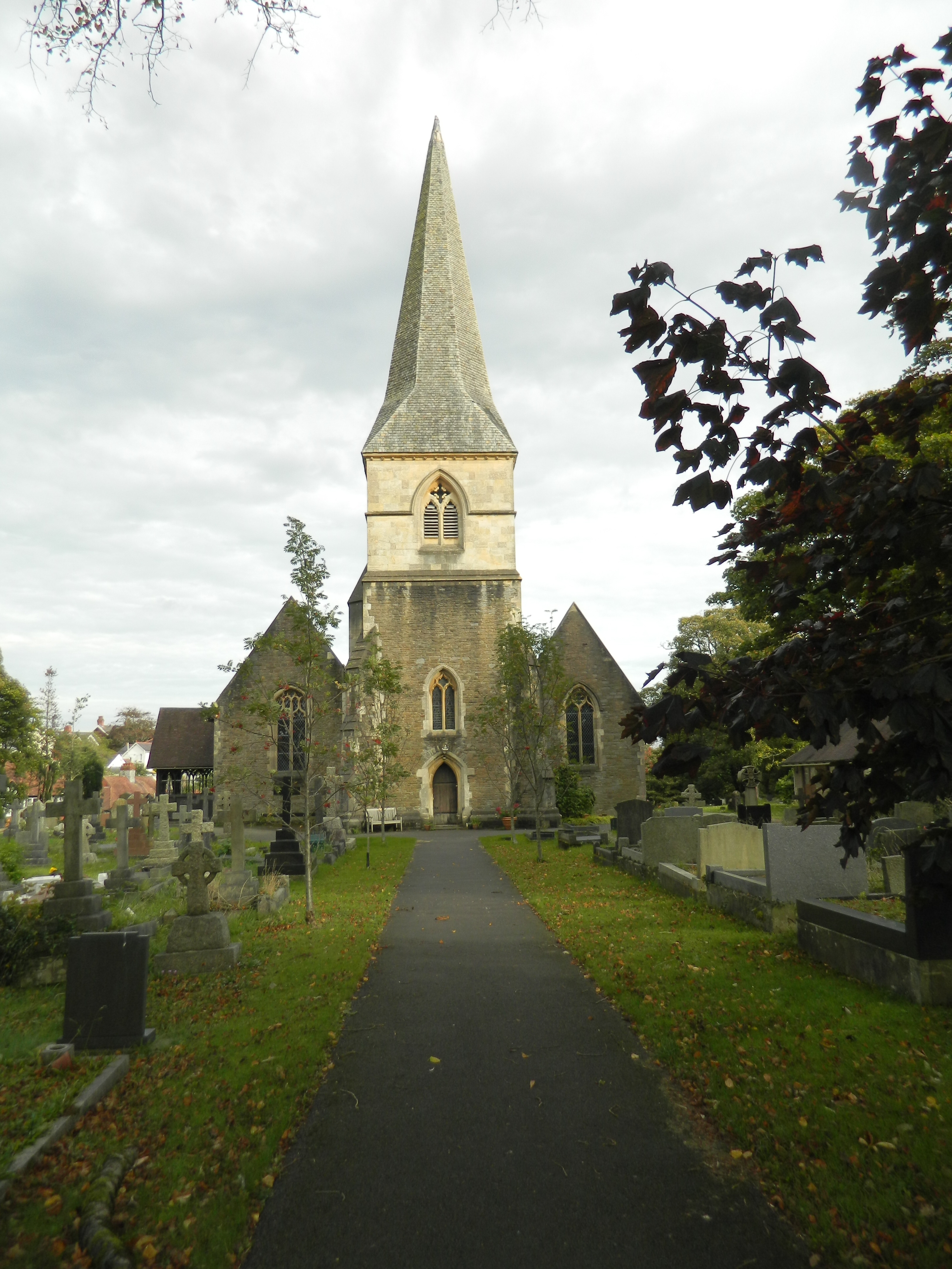 St Paul's Church, Sketty, Swansea